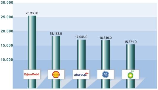 The five largest businesses of the world in 2005 according to their previous year profits